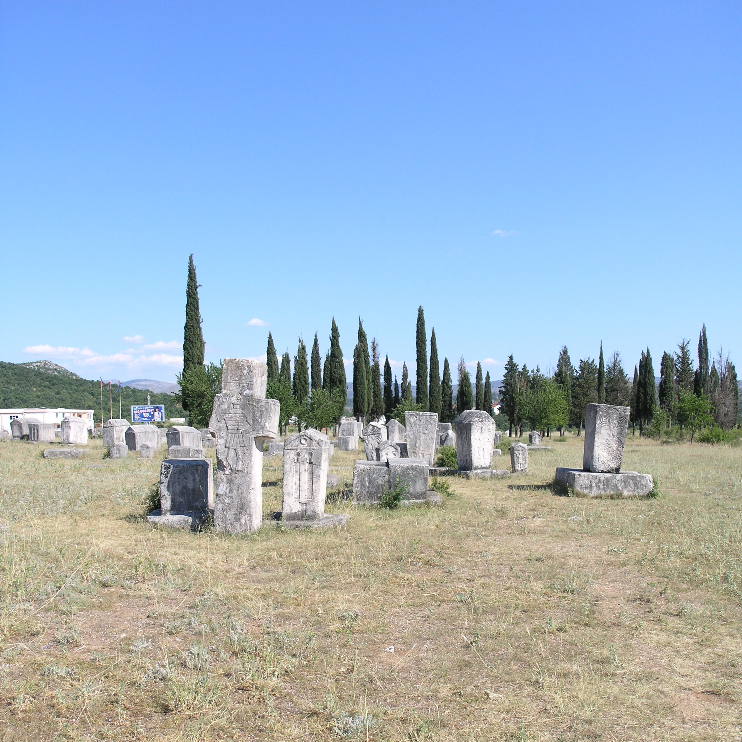 Bosnia and Herzegovina, Radimlja necropolis